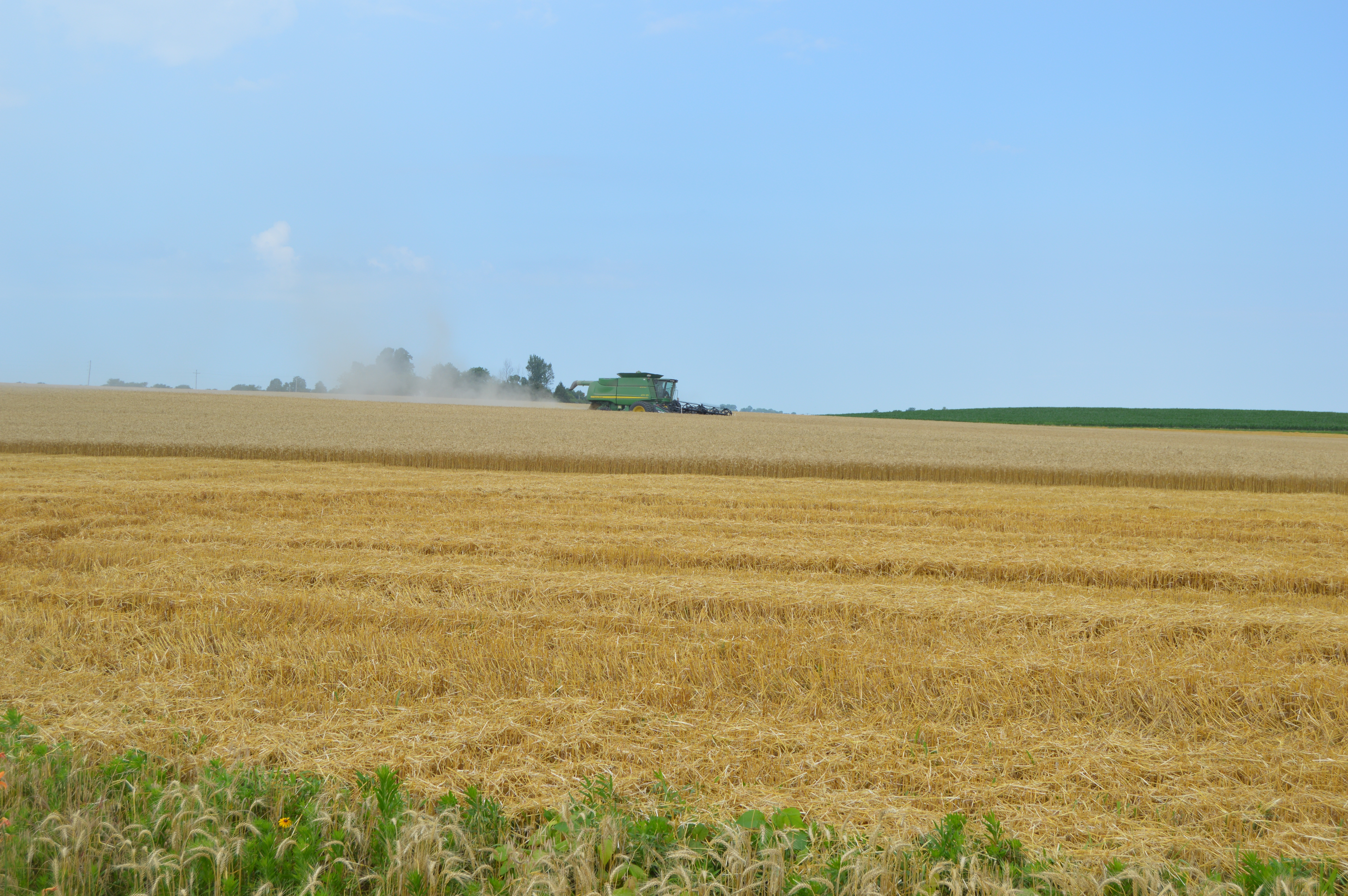 Combining wheat in a field on the western side of New Haven-Shawneetown Road on the eastern edge of Asbury Township, Gallatin County, Illinois, United States.